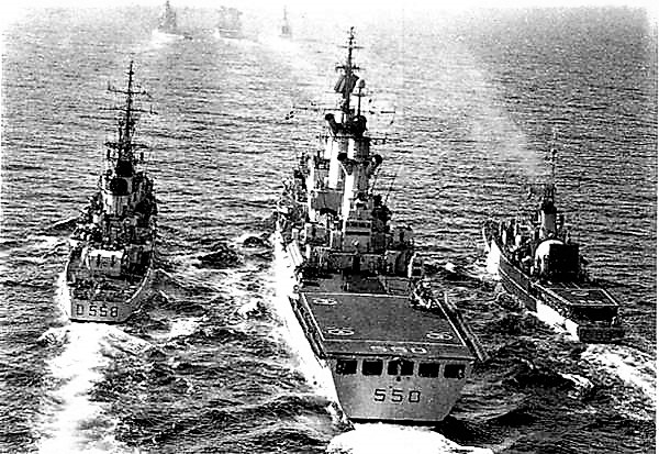 The cruiser Vittorio Veneto (C 550) in navigation escorted by Impetuoso (D 558) and Margottini (F 595).